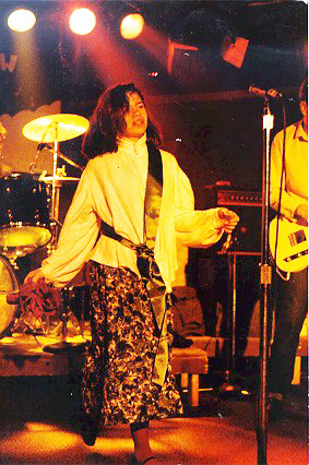 Natalie Merchant from 10,000 Maniacs at the Harvest Moon Saloon in 1984